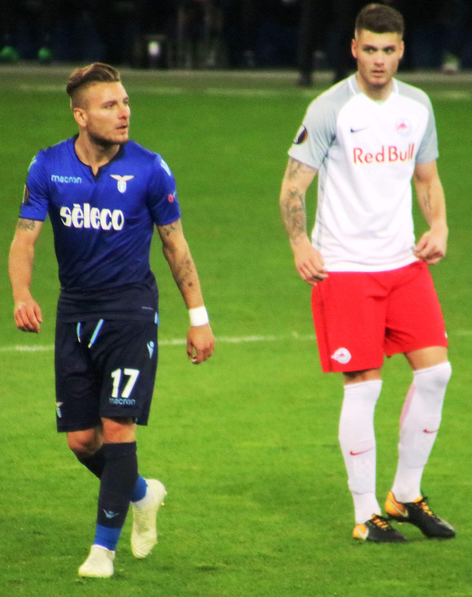 UEFA euro League Quarterfinal 2nd leg